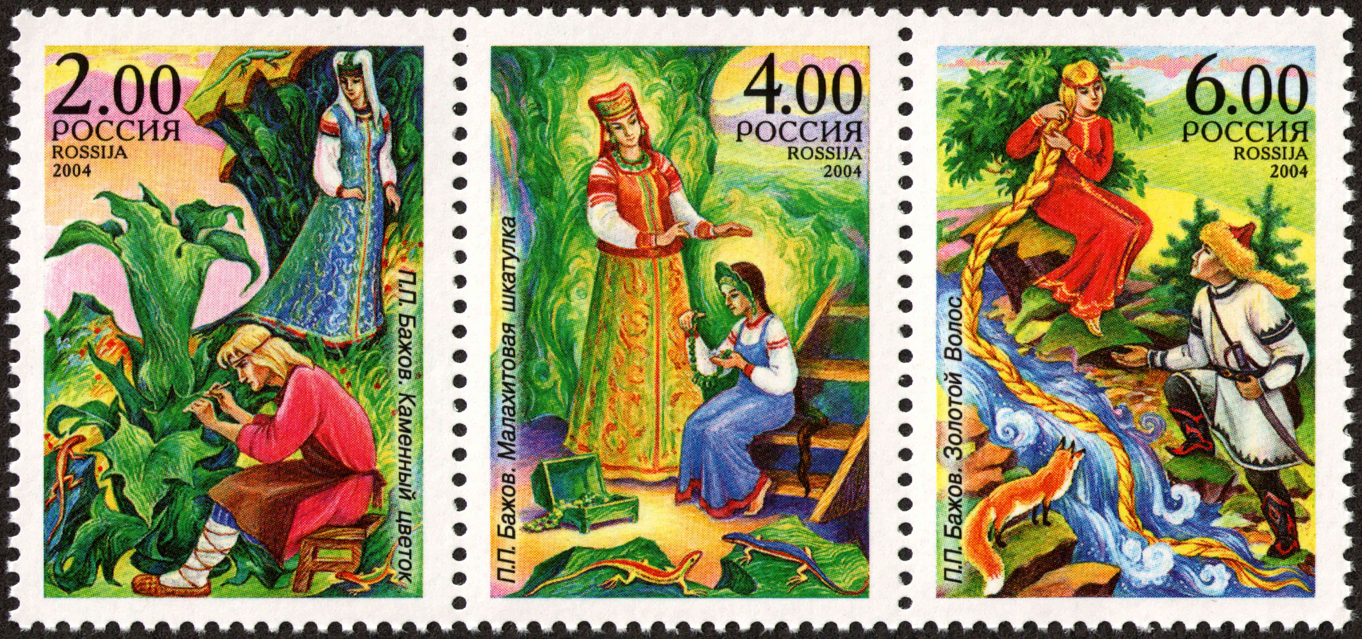 125th birth anniversary of the Soviet Russian writer Pavel Bazhov (1879–1850). The se-tenant stamps of Russia, 27 January 2004, PTC Marka catalogue No 912–914, Michel No 1144–1146, Scott No 6815a–c. No 912 No 913 No 914 The illustrations for Urals Tales by Pavel Bazhov: The stamp No 912, 2.00 Rubles. The Stone Flower: Danilo-the-Master and Mistress of the Cooper Mountain. The stamp No 913, 4.00 Rubles. The Malachite Casket: Mistress of the Cooper Mountain and Tanyushka. The stamp No 914, 6.00 Rubles. Golden Hair: the hunter Ailyp and his ladylove Golden Hair.